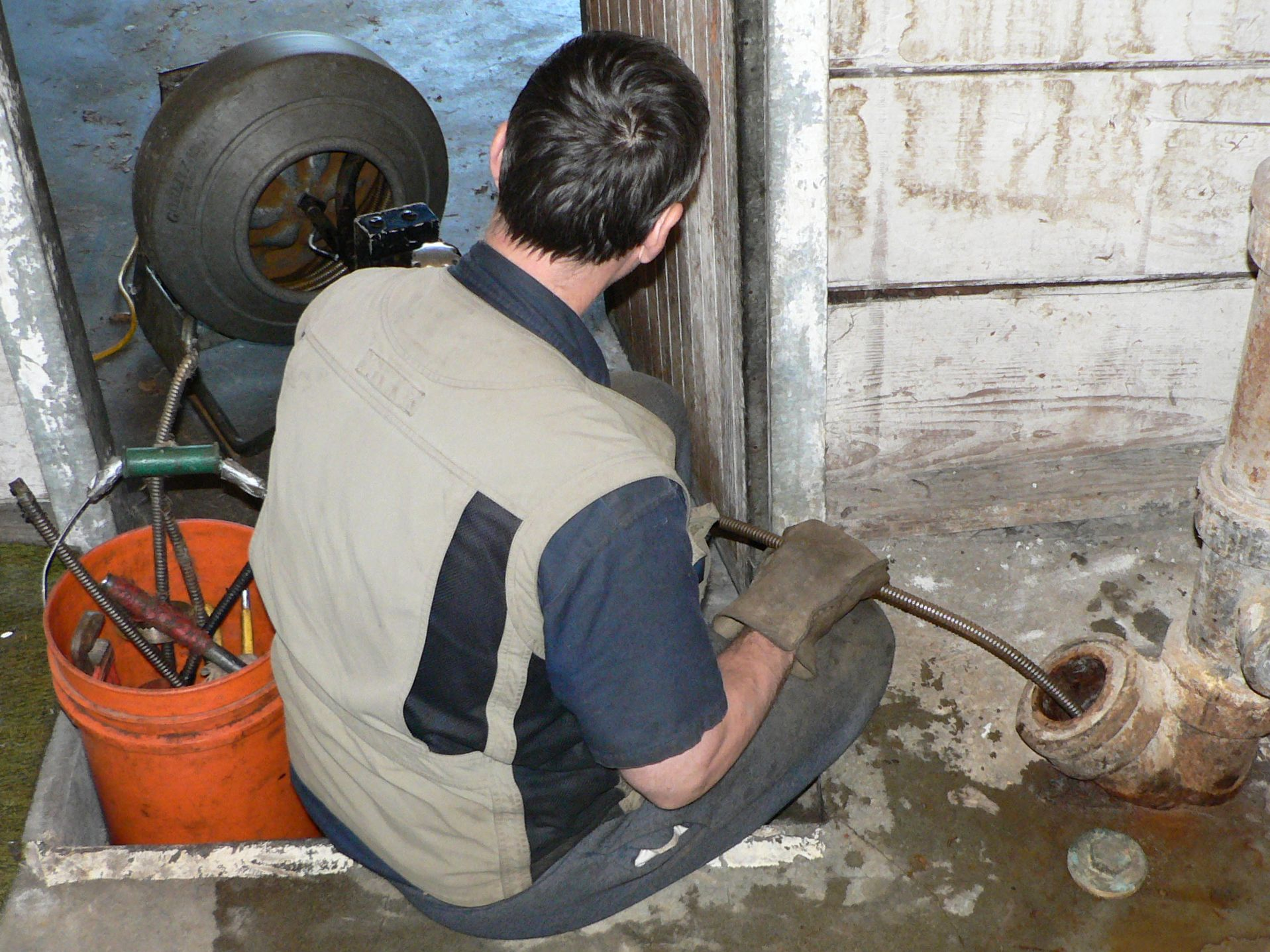 Motorized heavy-duty plumber's snake; cleaning a residential side sewer line in Seattle, Washington